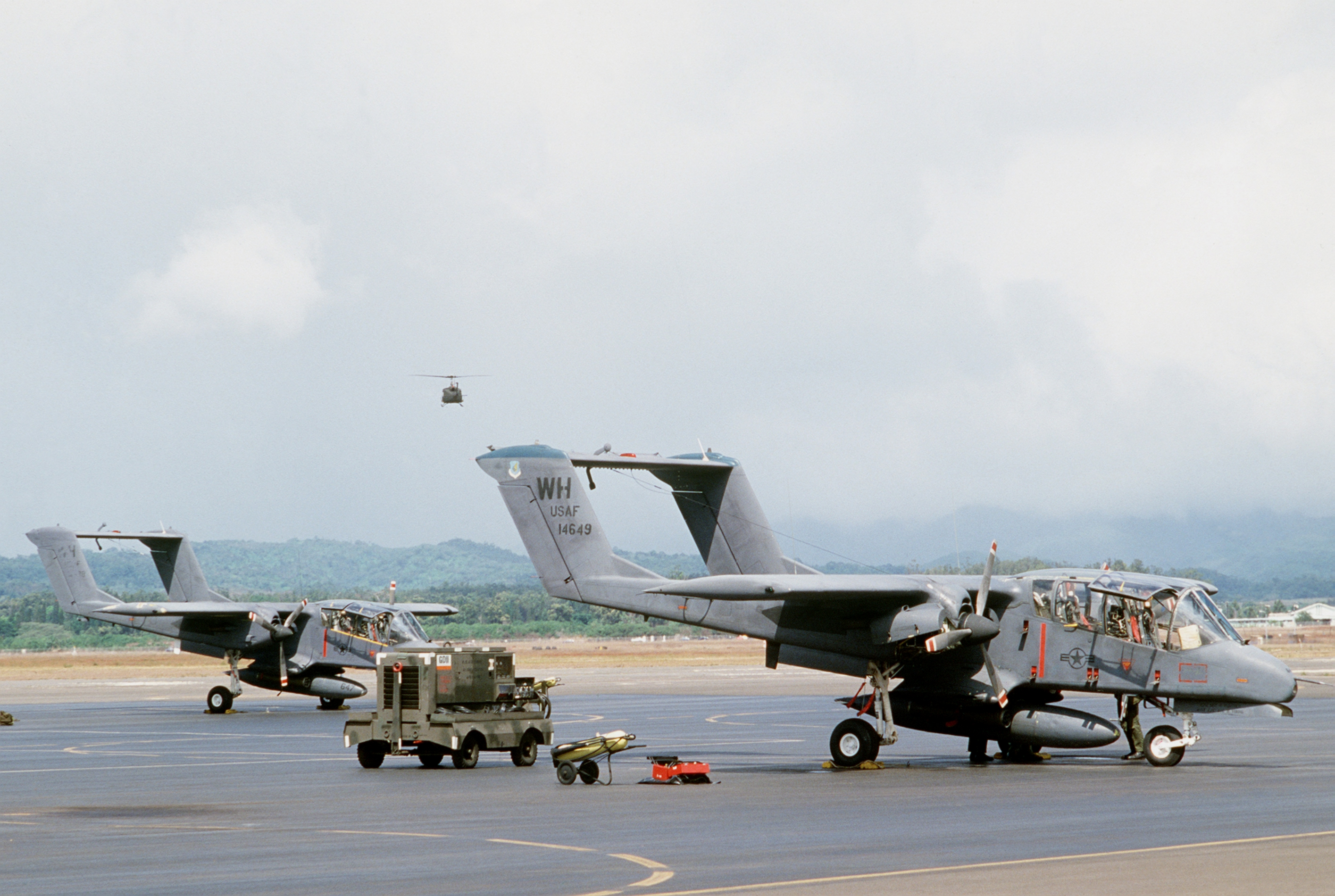 Two U.S. Air Force North American OV-10A-25-NH Bronco aircraft (s/n 67-14649 in front) from the 22nd Tactical Air Support Squadron at Wheeler Air Force Base, Oahu, Hawaii (USA), on 22 August 1984. The aircraft were taking part in exercise "Opportune Journey '84".